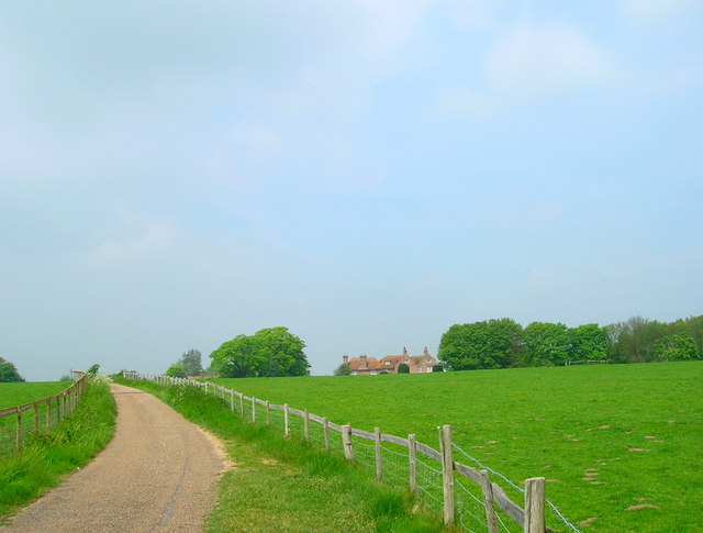 Approaching Wootton Manor. 17th century grade II* listed building north of Folkington.